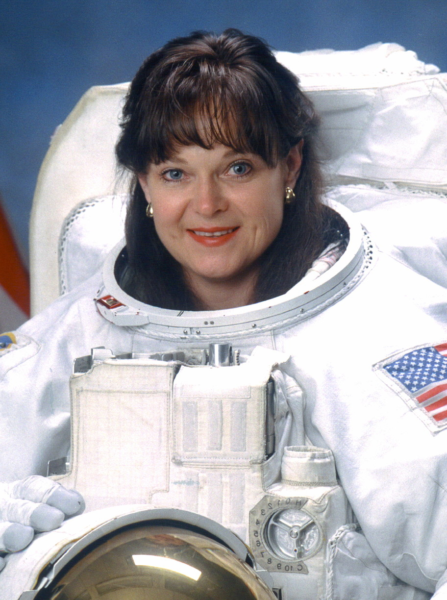 Astronaut Tamara Jennigan